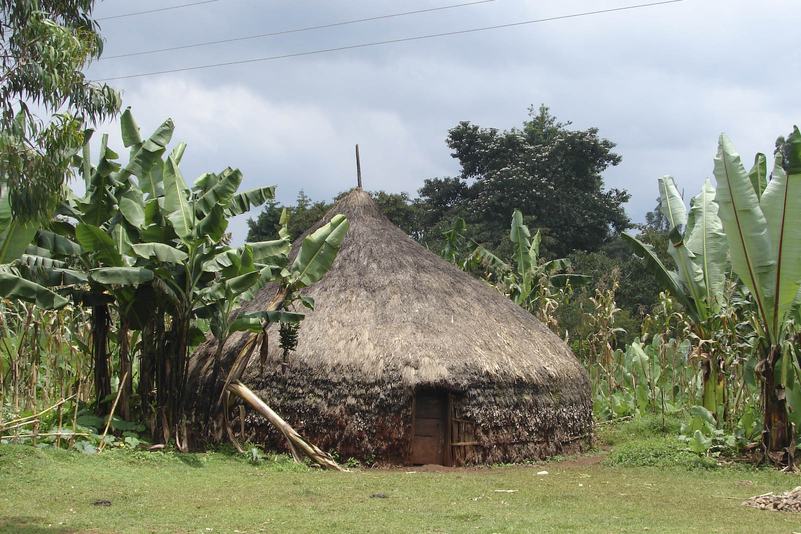 Sidama hut (Ethiopia)